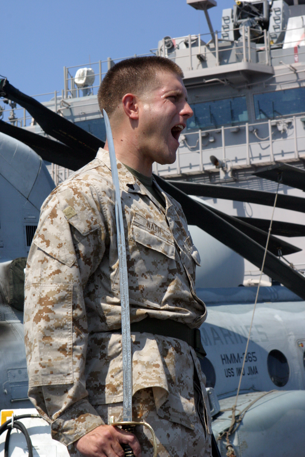 A USMC Corporal using the USMC NCO sword during a training session.